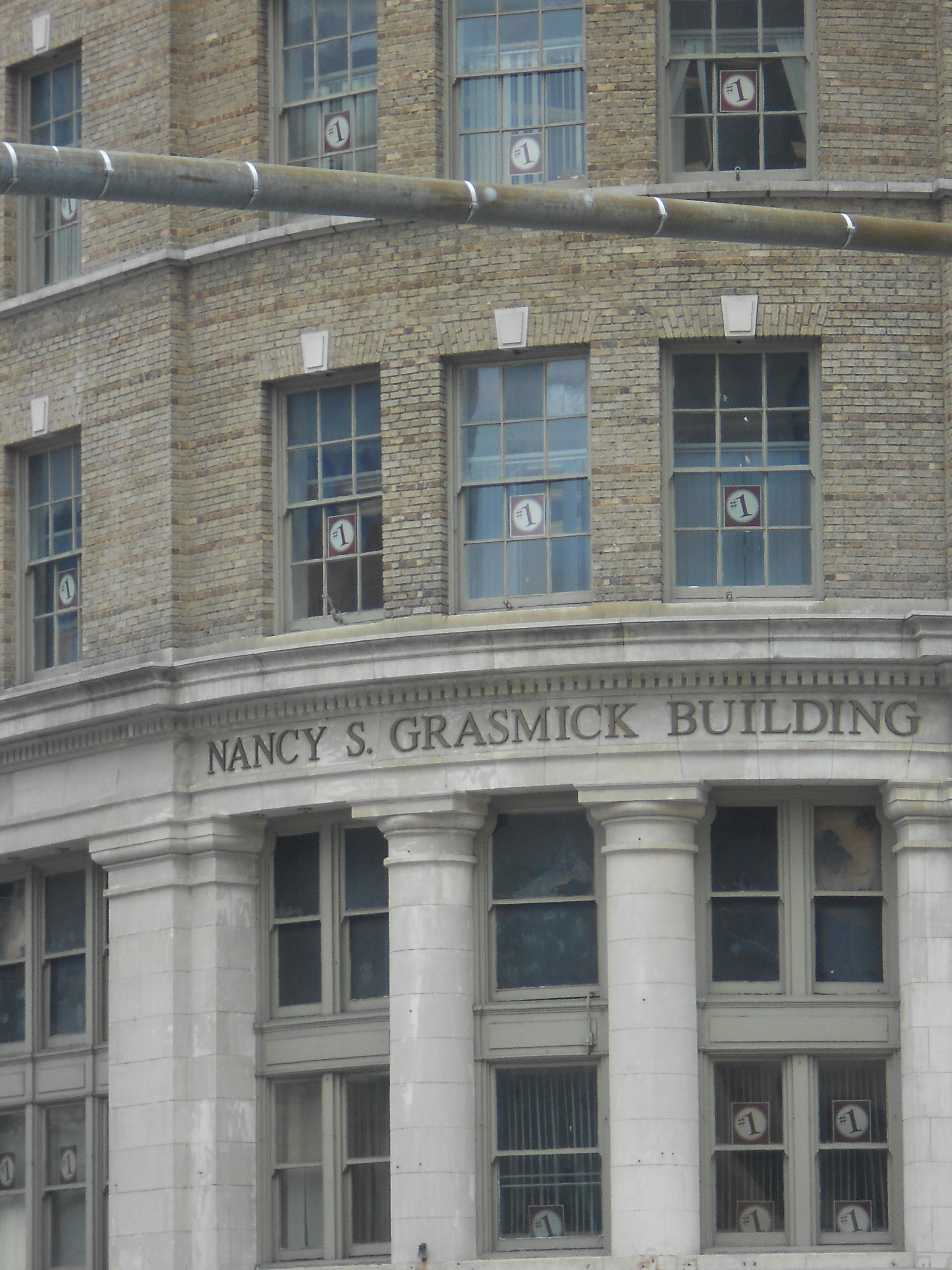 Nancy S. Grasmick Building, located at 6 North Liberty Street in Downtown Baltimore